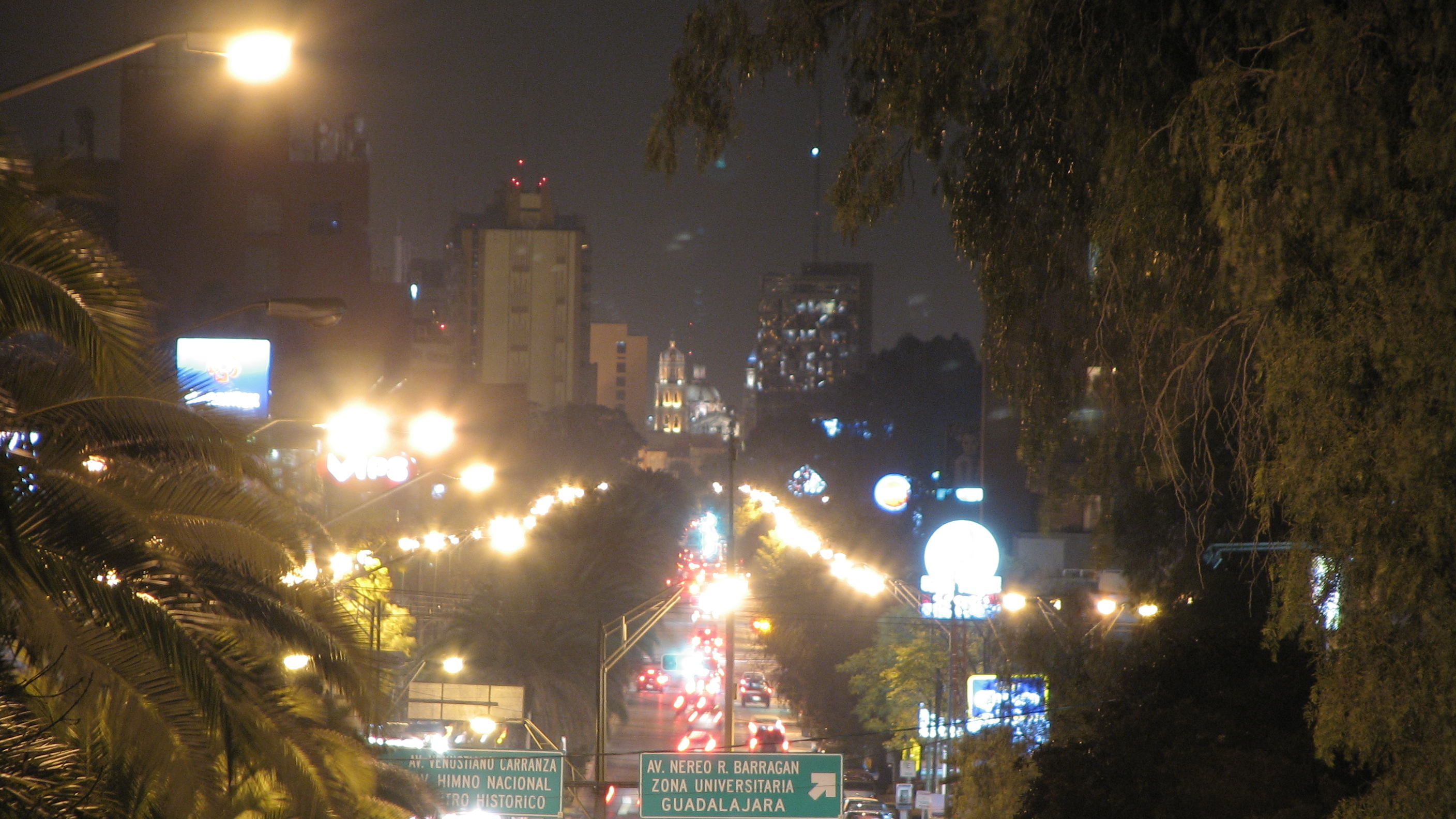 picture taken from the west side of carranza avenue looking eastward.